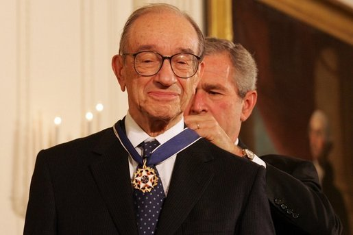 Former Chairman of the Federal Reserve Alan Greenspan, receiving a Presidential Medal of Freedom in 2005